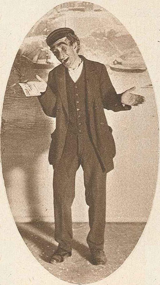 Ernst Fastbom (1871-1940), Swedish actor, singer and playwright. Seen here in a role from the 1916 new years revue Stockholmsjobb at Södra Teatern in Stockholm.